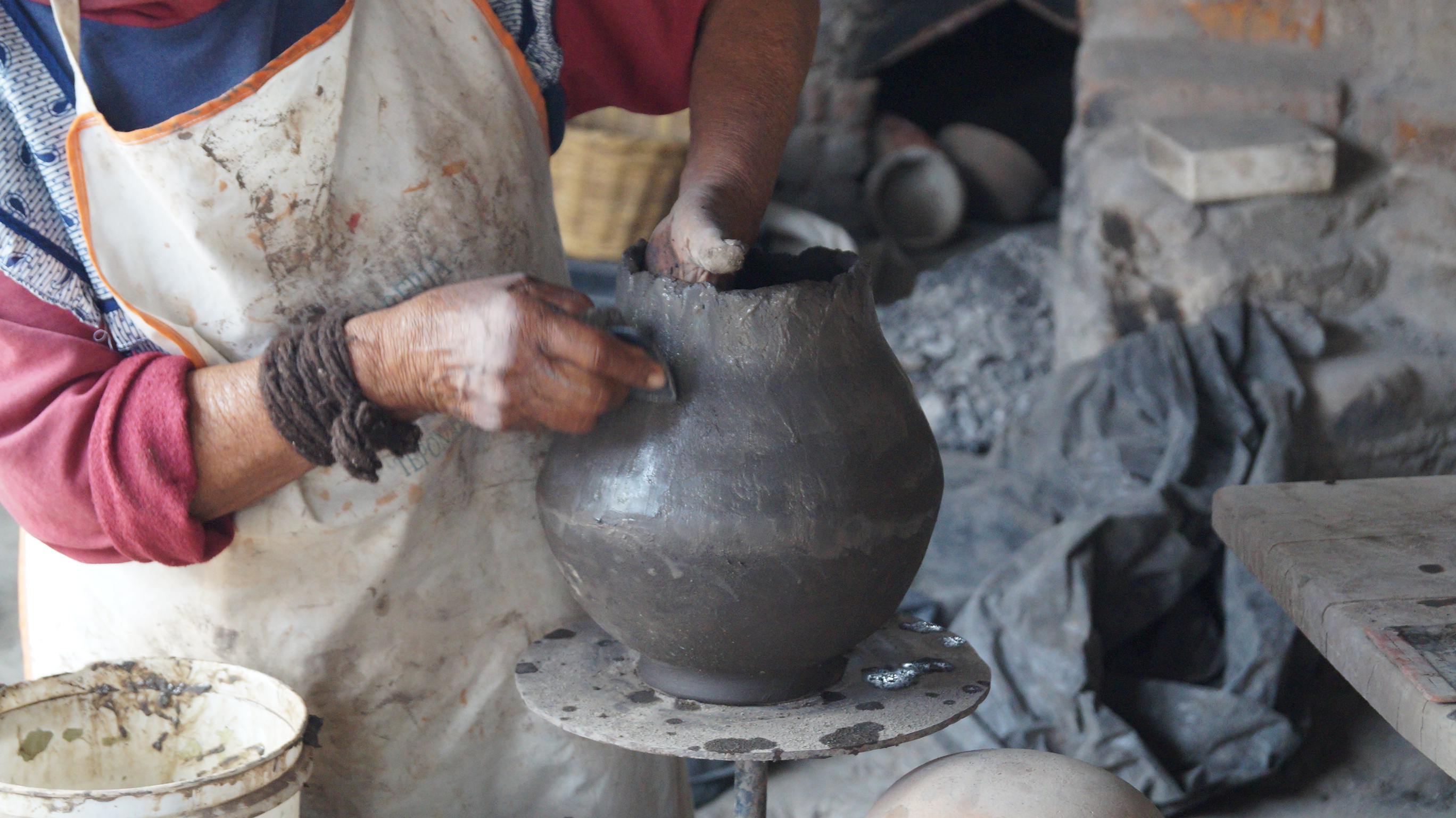 Cuquio